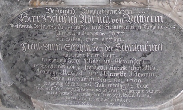 Epitaph inscription in St. Jakobus church Rottmersleben, Germany